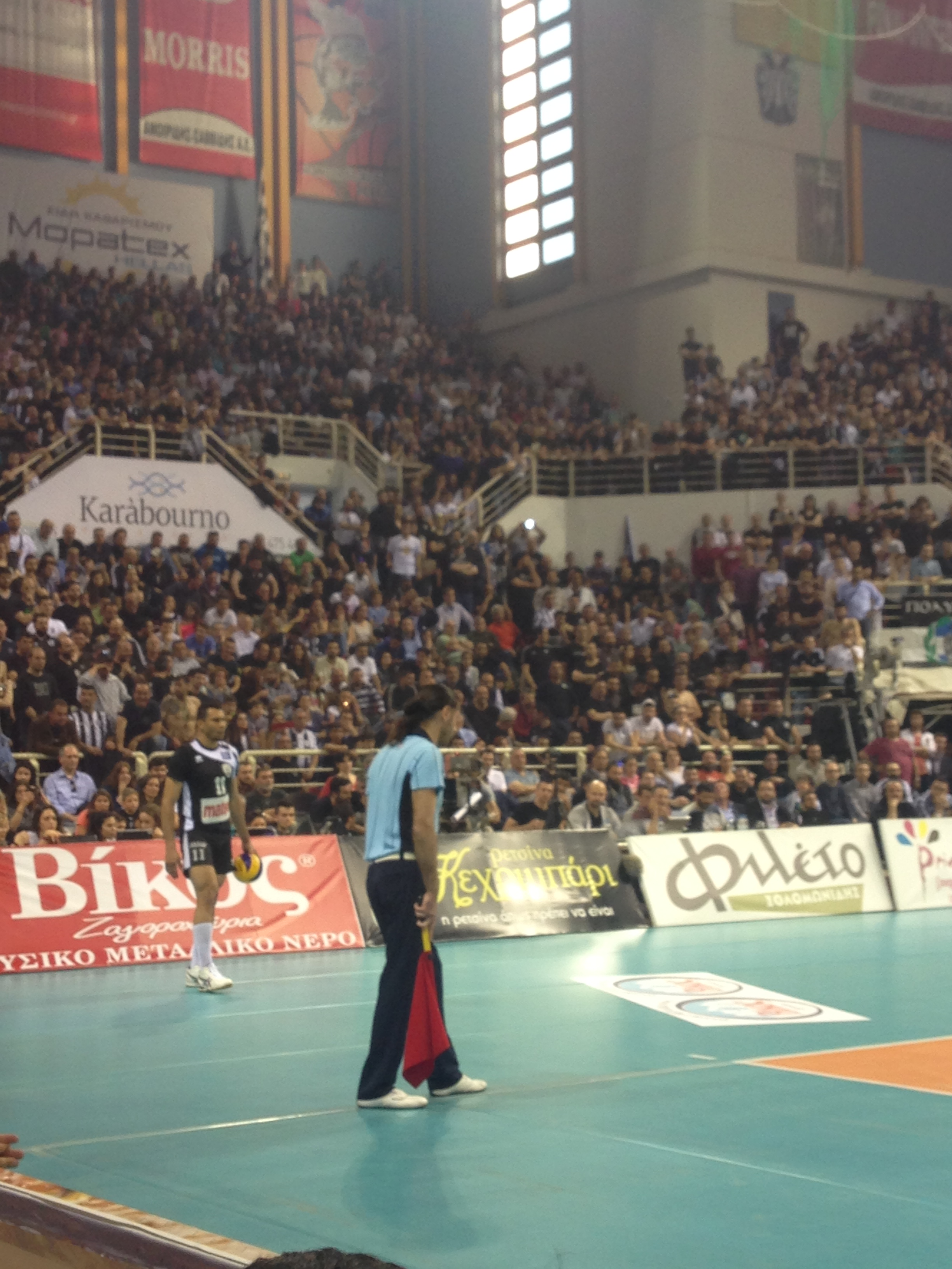 Ernardo Gomez at the 2014-2015 Greek Volleyleague Finals against Olympiakos